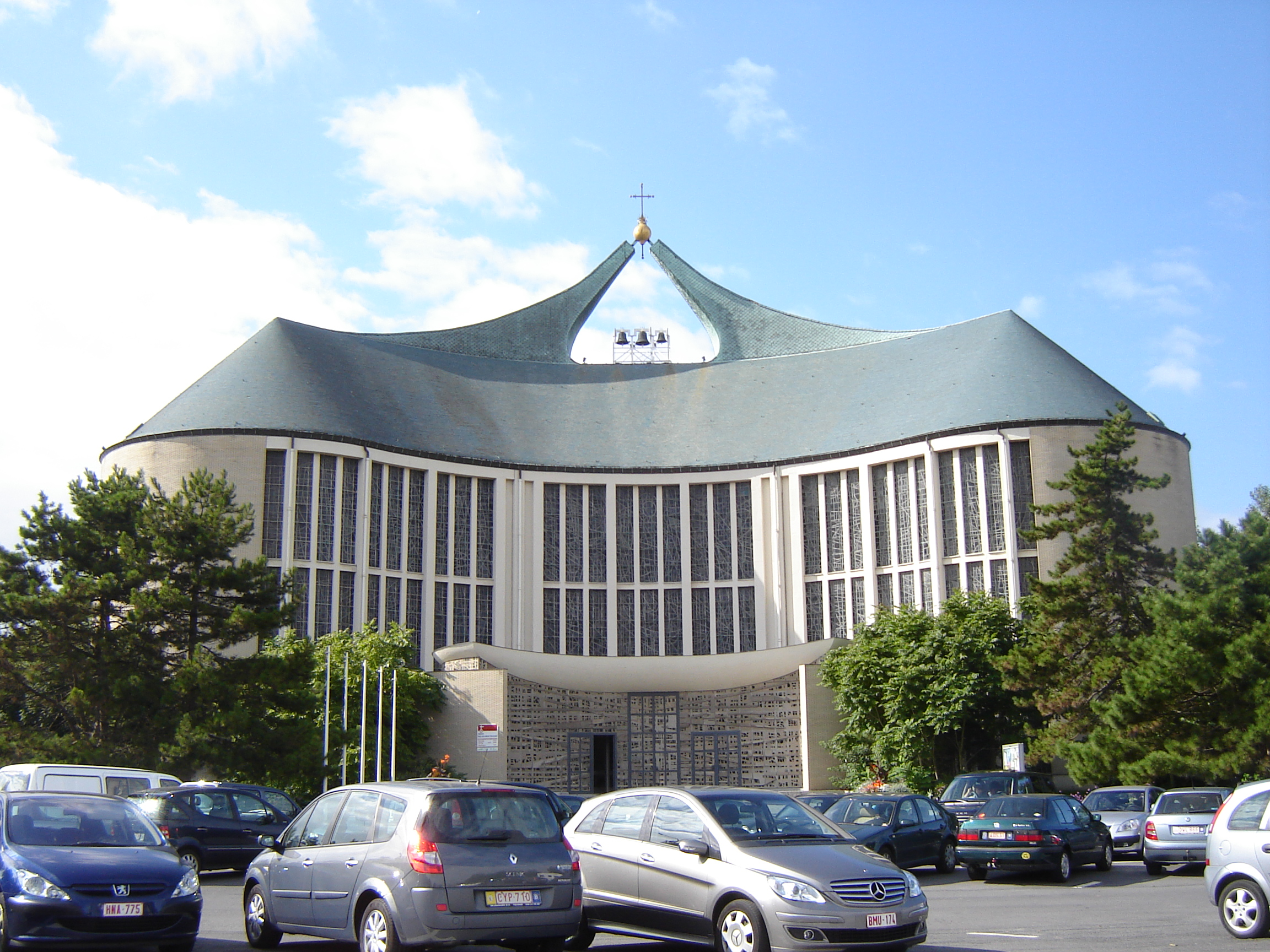 Church of Our Layd of the Dunes in Koksijde-Bad. Koksijde, West Flanders, Belgium